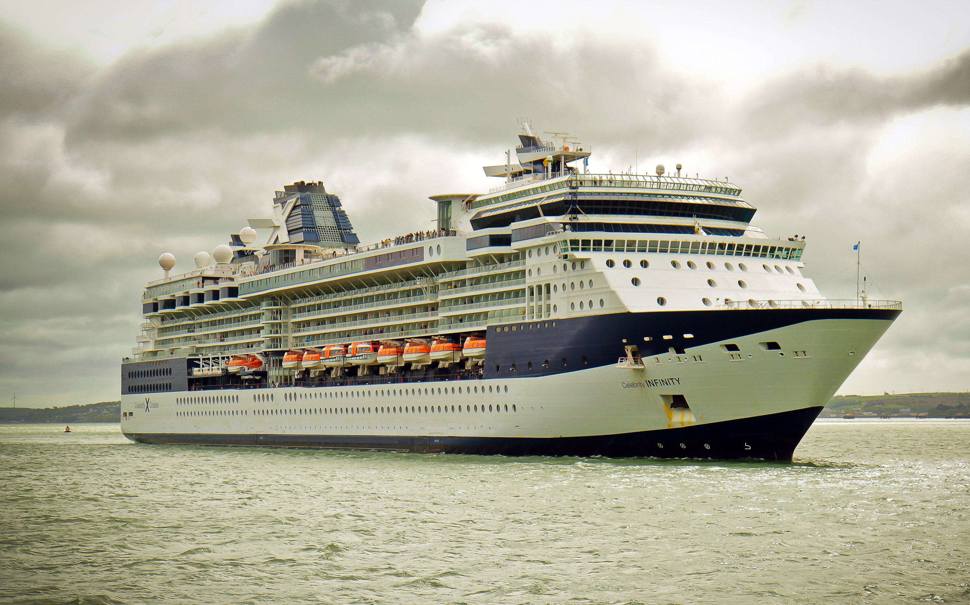 Cruise ship Celebrity Infinity